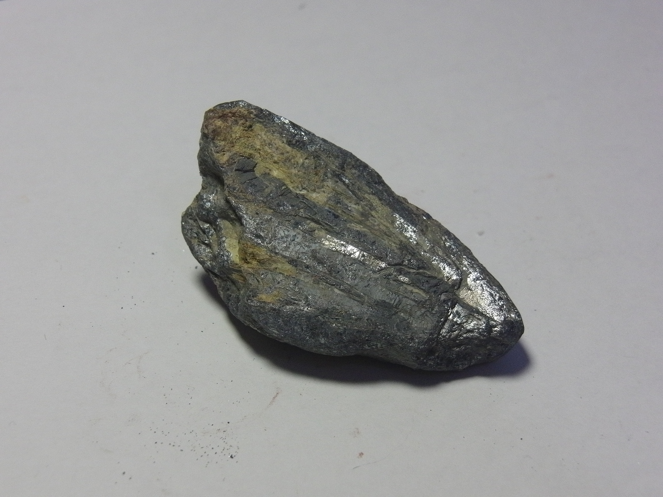 Stibnite